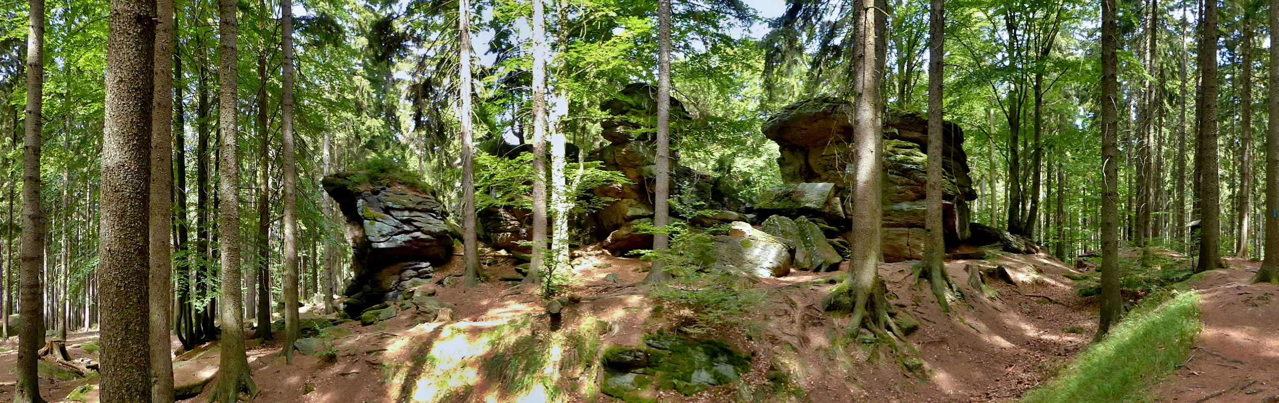 Panorama from the edge of the ridge: in photo from left are a rock blocks with name "Spárová věž, Hlava, Skříň" in a group of rocks with the geographical name Petrified Chateau in the geomorphological district "Borovský" Forest. The settlement of the locality already in the Stone Age (neolithic period), also traces of Slavic settlement (archaeological finds, ceramics, etc.). Around the rocks an anthropogenic ditch, originally part of a prehistoric fortification. In the Middle Ages, the rock system was used to build a small wooden castle. Petrified Chateau is important geological locality, cultural and natural monument of the Czech Republic. It is located in the cadastral area of town Svratka and is part of the Žďár Hills Protected Landscape Area. A blue touristic route of the Czech Tourists Club leads to the group of rocks (in the section: hunting chateau "Karlštejn" – Petrified Chateau – "Milovské Perničky").Photo-location: Czechia, Vysočina Region, the town of Svratka, a group of rocks called Petrified Chateau (azimuth 0°).